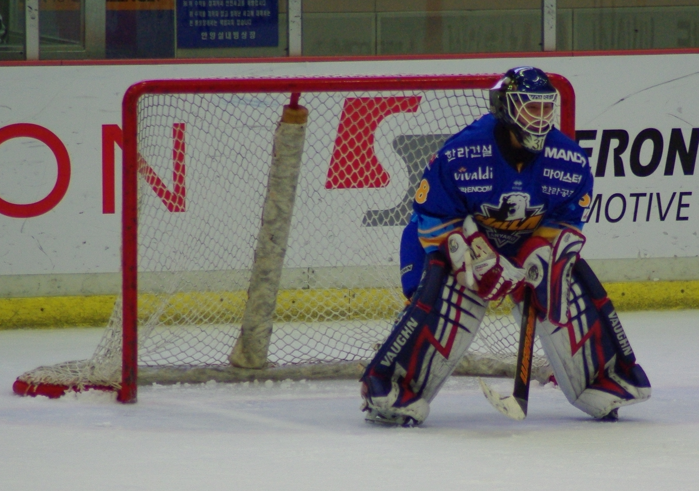 Park Sung-Je, of Anyang Halla, playing his first game